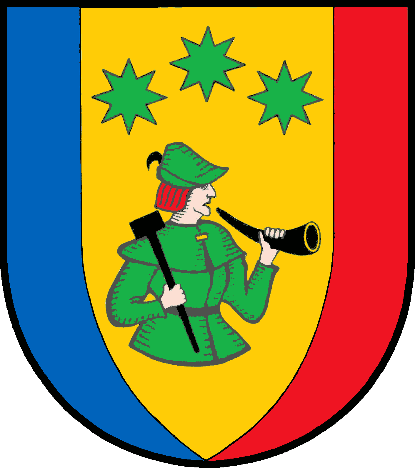 Coat of arms of the municipality Panten in Schleswig-Holstein, Germany.